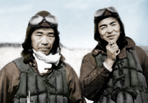 Left, Saburo Sakai. Right, Hiroyoshi Nishizawa. at Hamamatsu or Toyohashi.